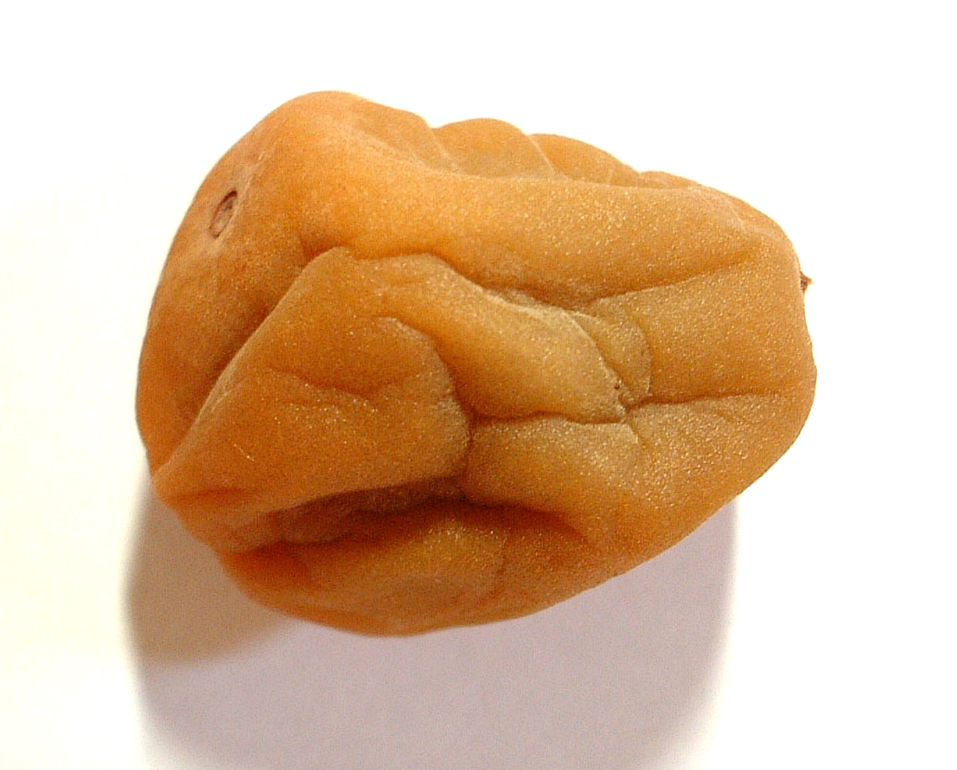 Umeboshi, Japanese food. This is rather new one. Photo taken in Japan.